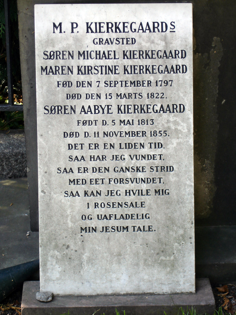 This is the tombstone of the philosopher Søren Kierkegaard, placed in the Copenhagen Central Graveyard